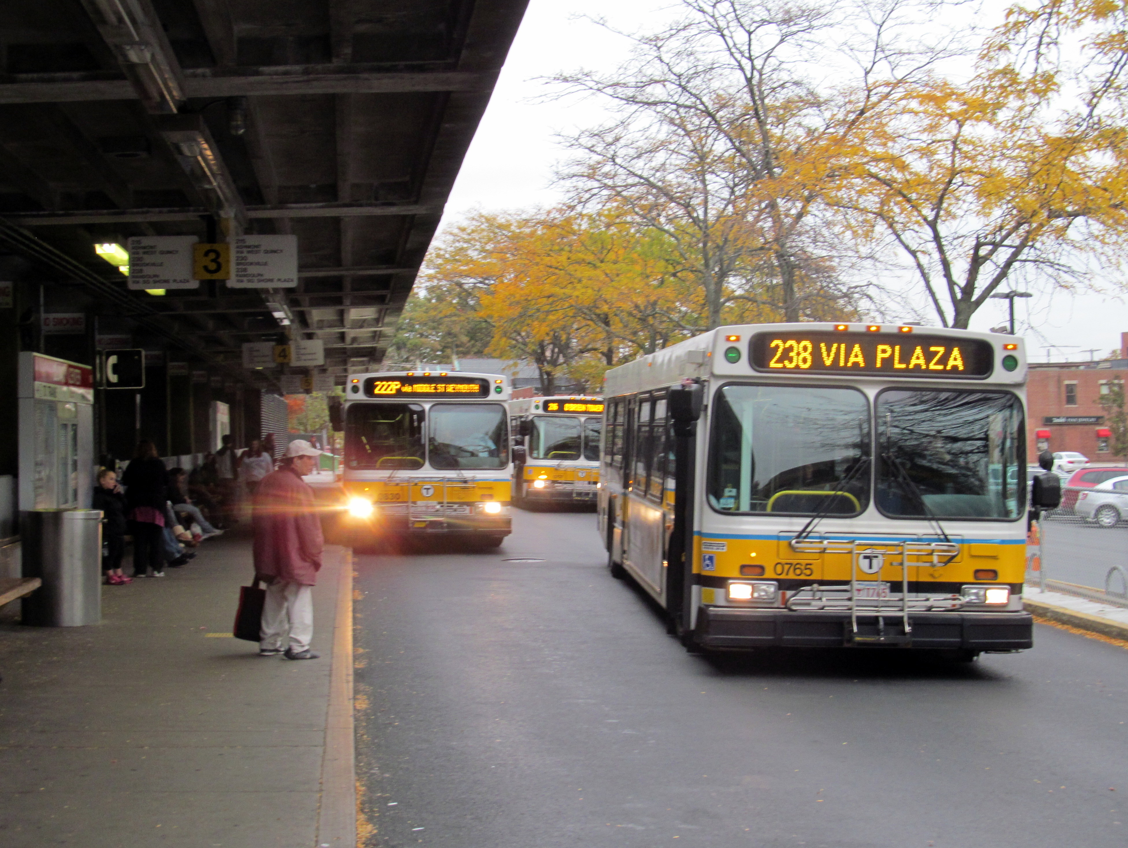 Buses on routes #216, #222P (modification of #222 via Pleasant Street) and #238 at Quincy Center station in October 2015